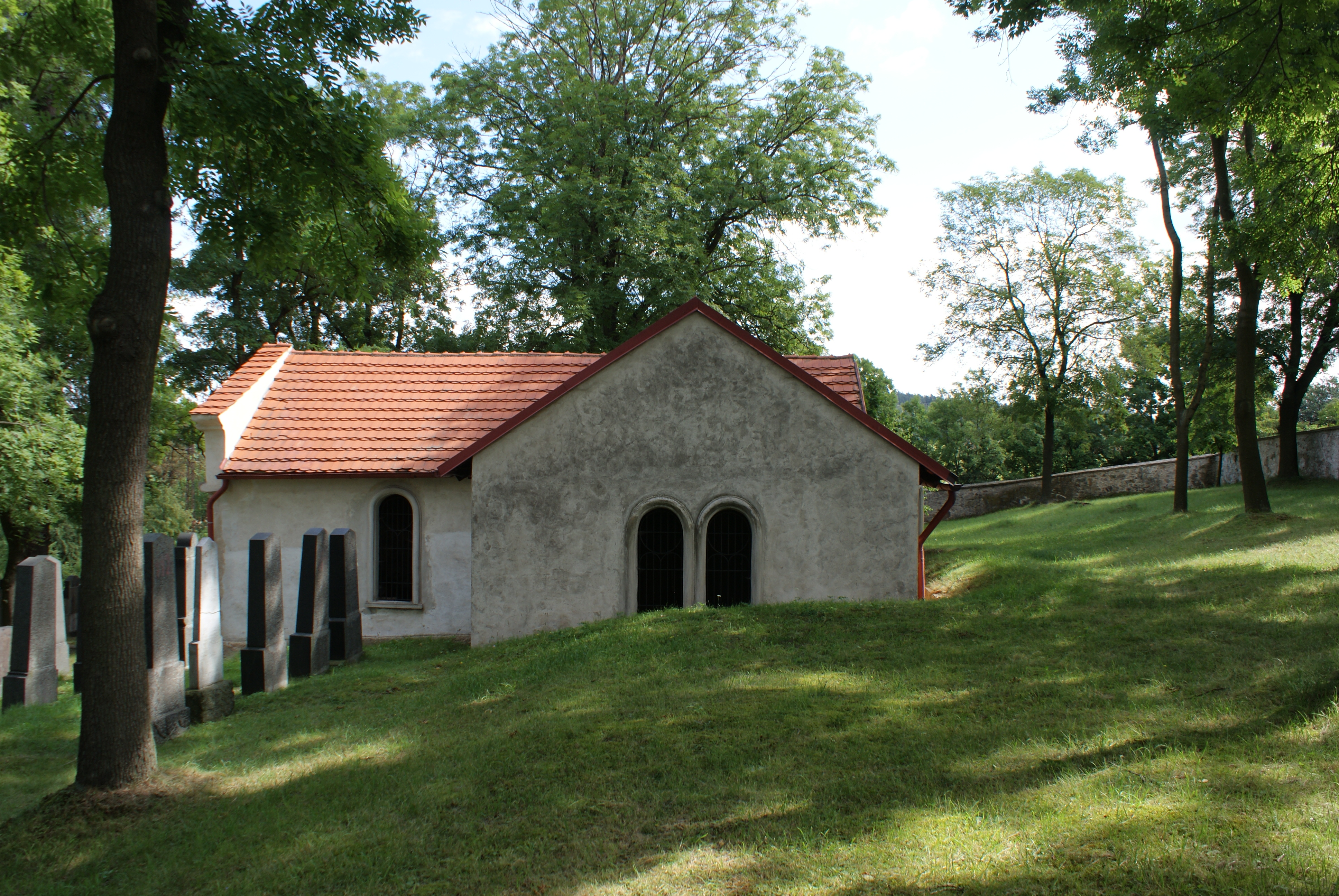 The ceremonial hall at the Jewish cemetery in Příbram, Příbram district, Czech Republic. Česky: Obřadní síň na židovském hřbitově v Příbrami